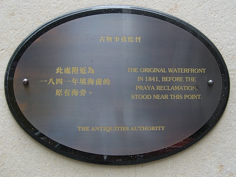 Commemorative Plaque for the Original Waterfront in 1841